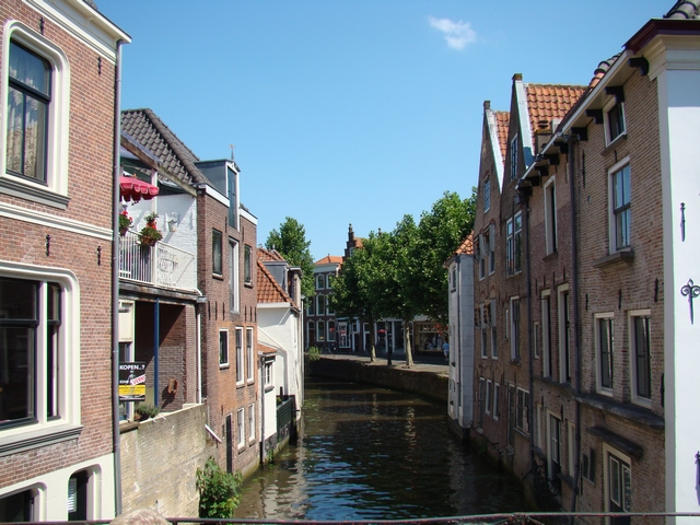 Oudewater, Netherlands